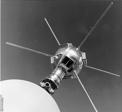 Vanguard satellite.